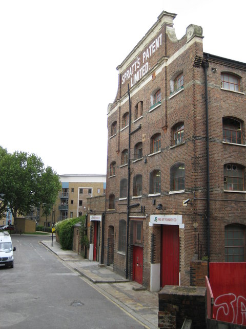 Poplar: Former Spratts' Pet Food factory (3) This is the Fawe Street frontage of the former factory on its south side. Spratt's Patent Limited was the formal name of the company.